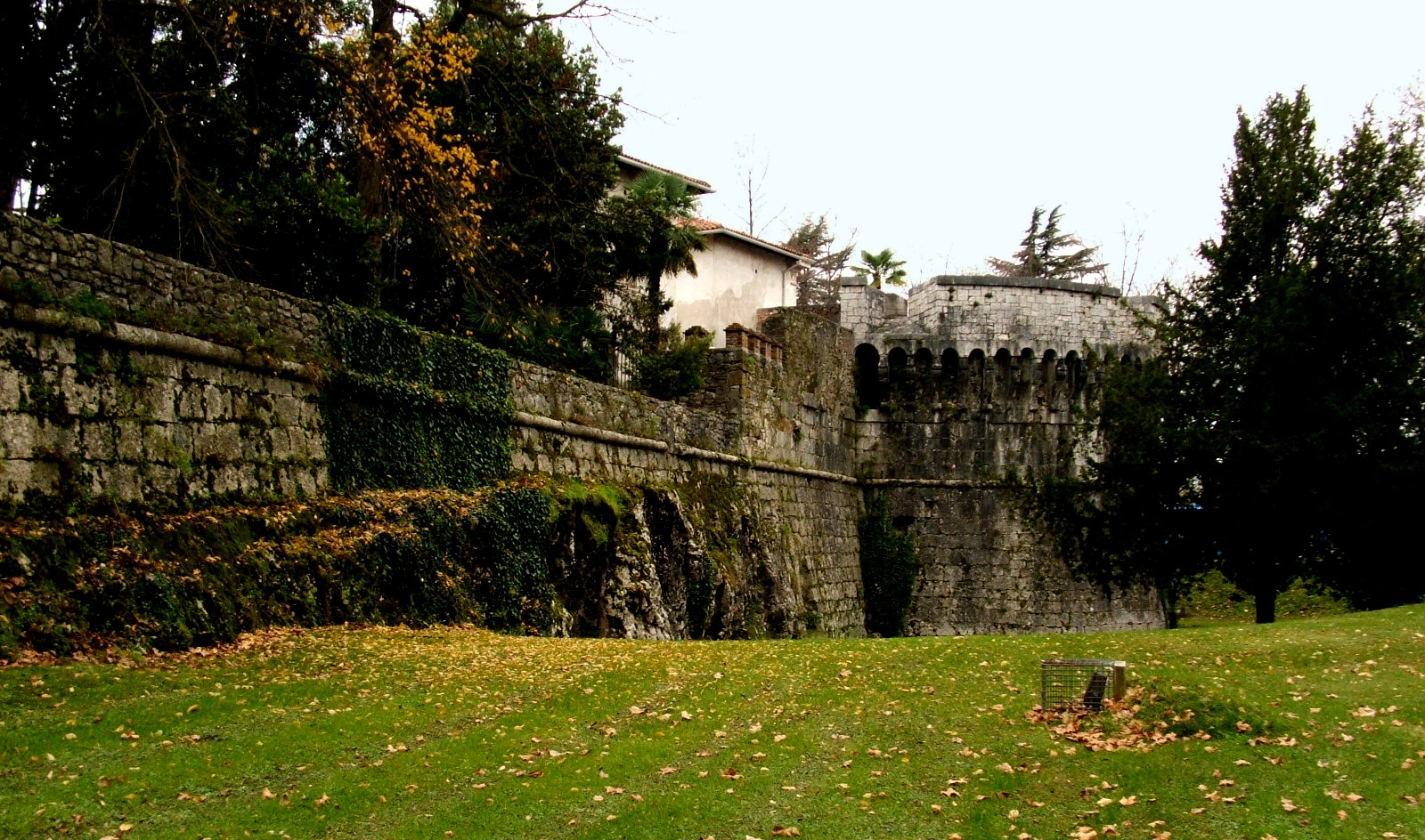 Wall of Gradisca Castle